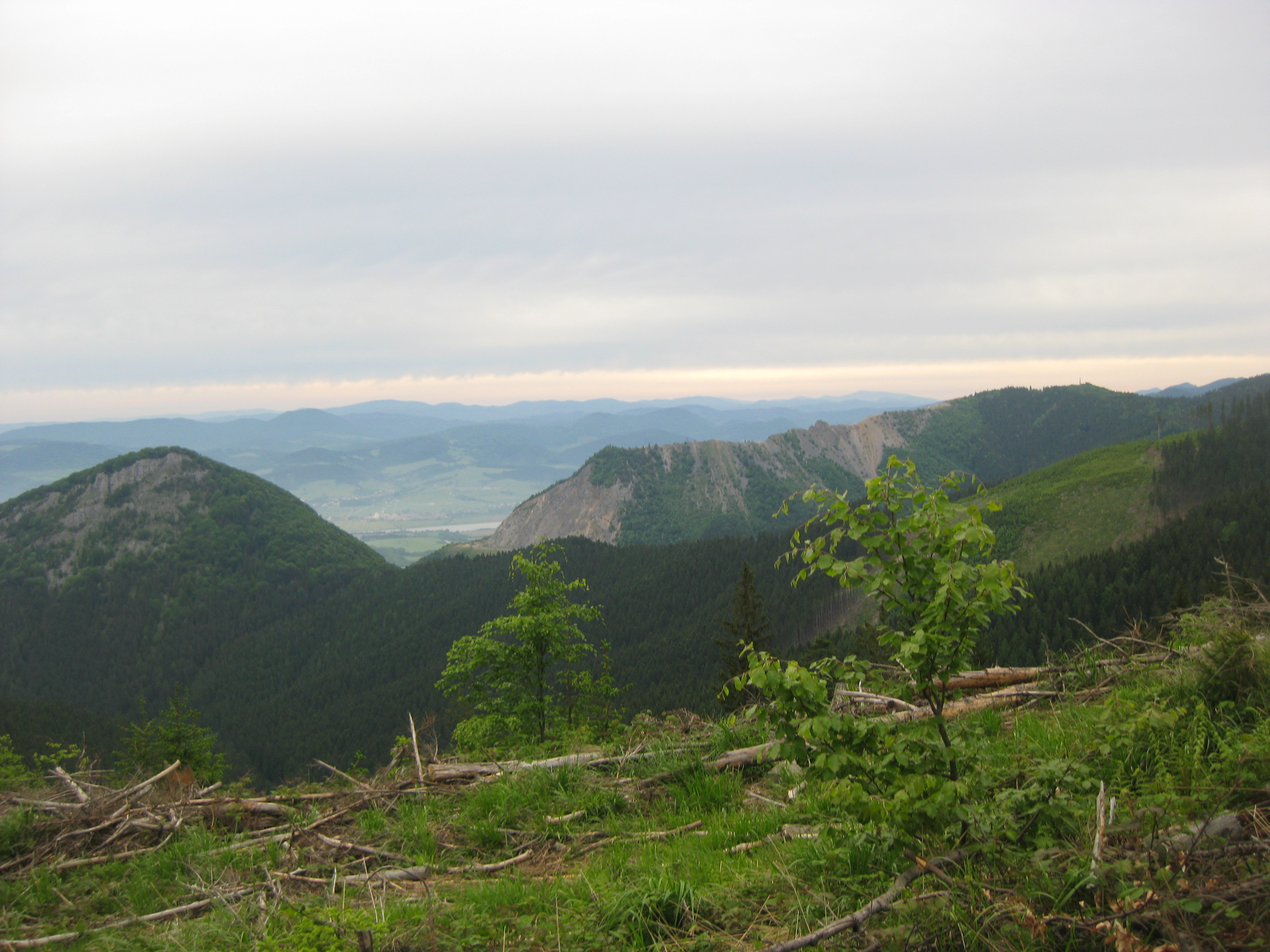 Polom od Hornej rovne